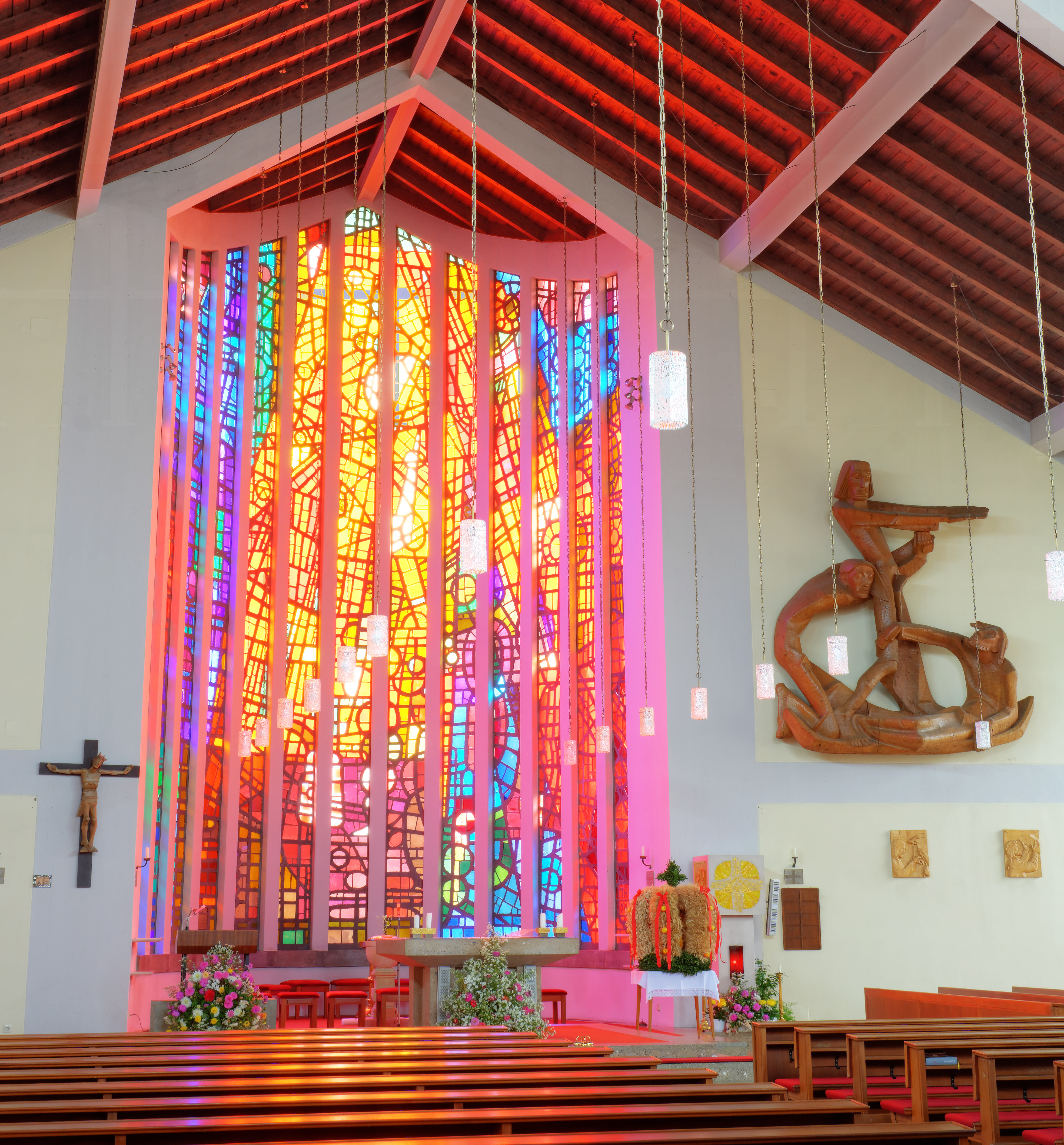 Indoor of the catholic parish church of Wildendürnbach, Lower Austria, Austria